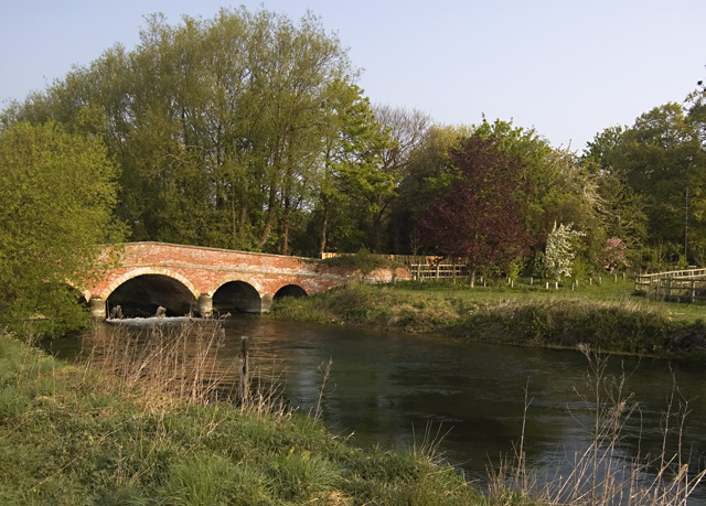 Wansford Bridge, near Driffield, East Riding of Yorkshire, England.Bridge over the River Hull (or West Beck) which carries the lane between Wansford and Skerne, seen from the footpath on the river's south bank.